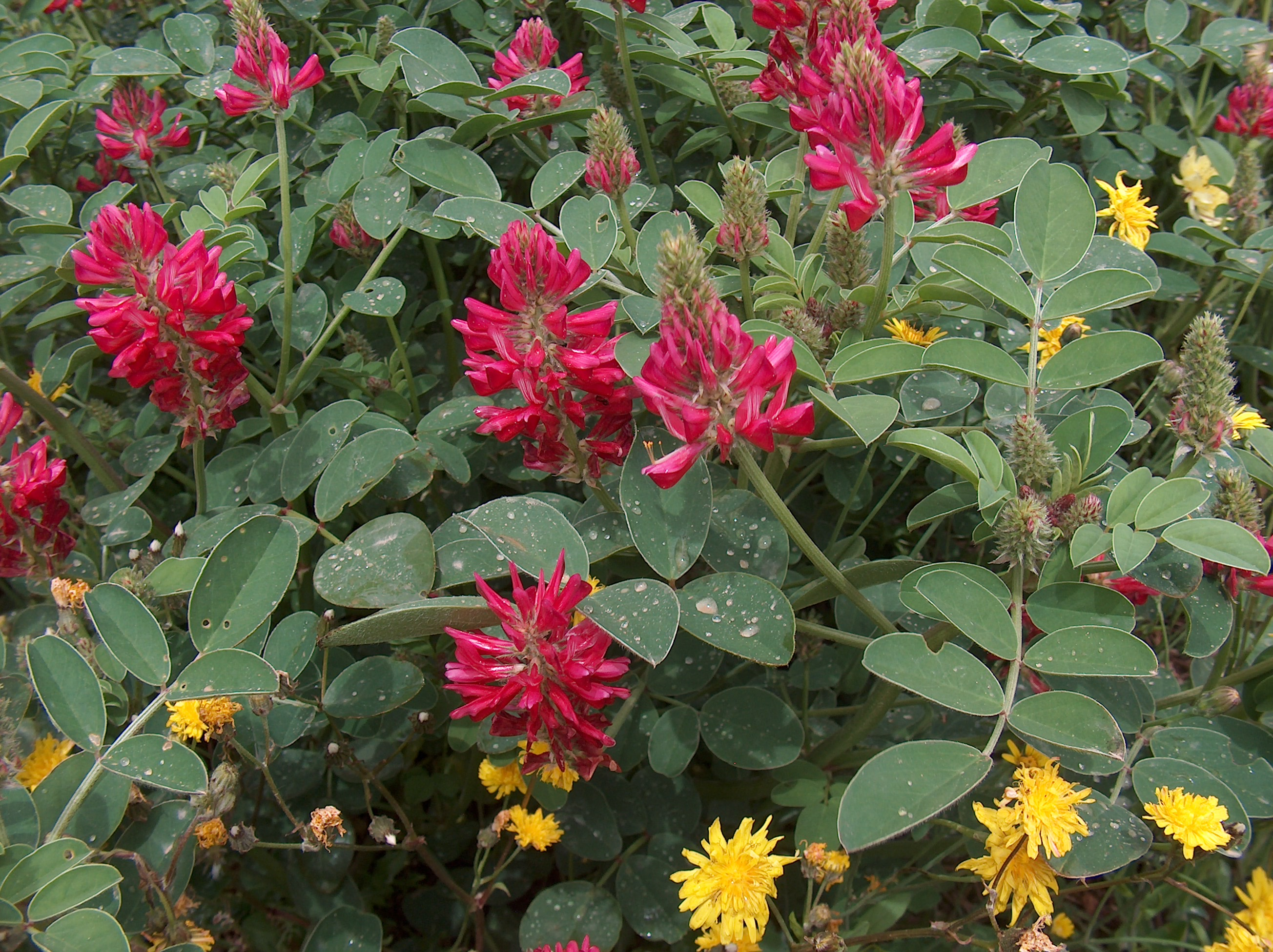 Leaves and flowers of Hedysarum coronarium. Place: near Domusnovas (Sardinia, Italy)